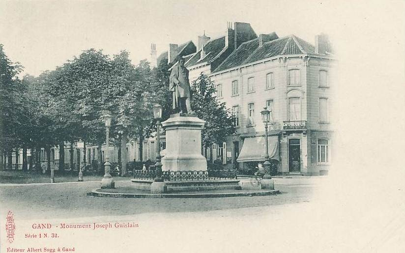 Joseph Guislain (1797-1860) MD psychiatrist. Statue in Ghent erected in 1887, artwork by Albert Hambresin.